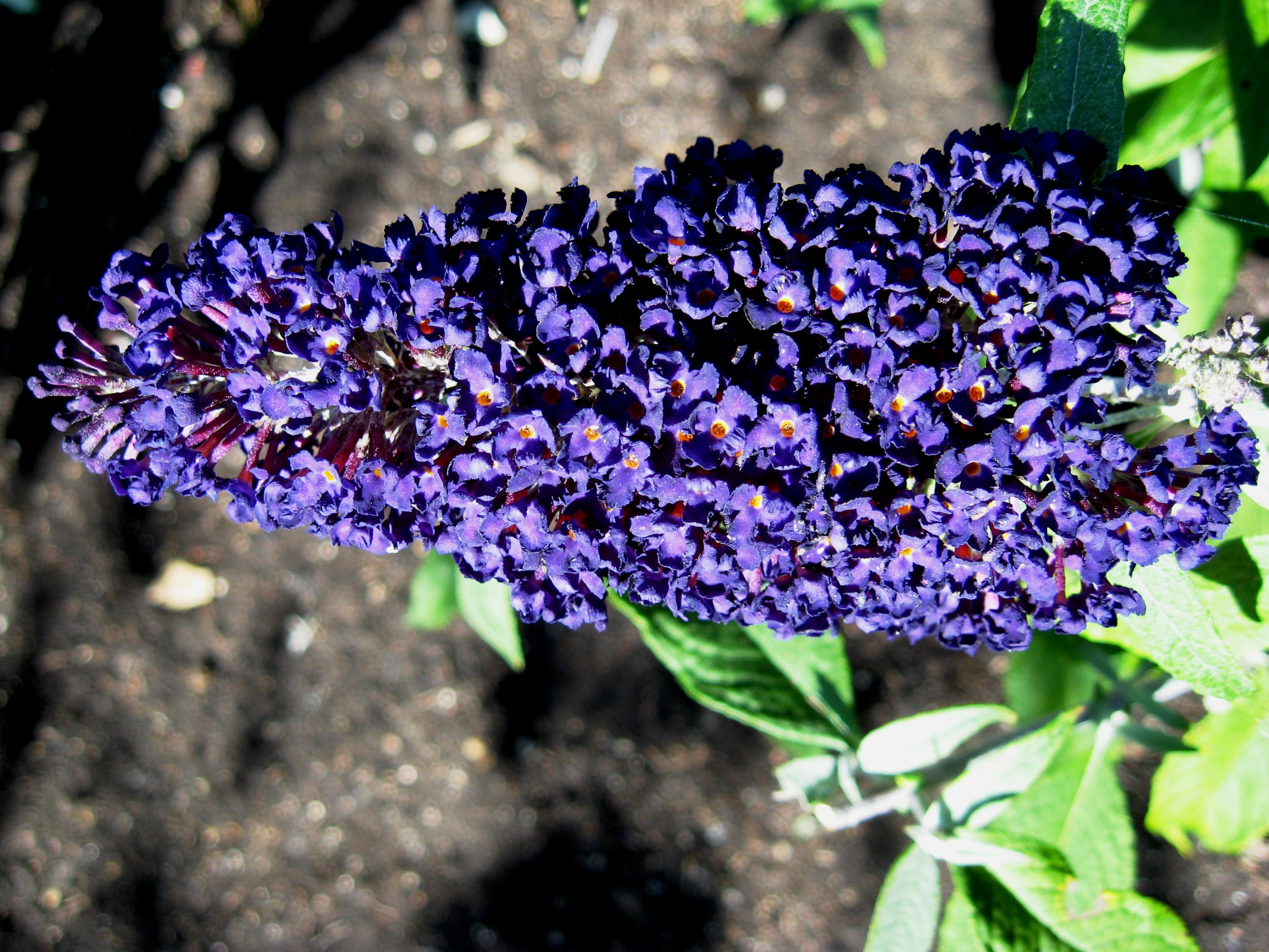 Photo of a panicle of Buddleja BUZZ INDIGO taken at Longstock Park Nursery, near Stockbridge, UK